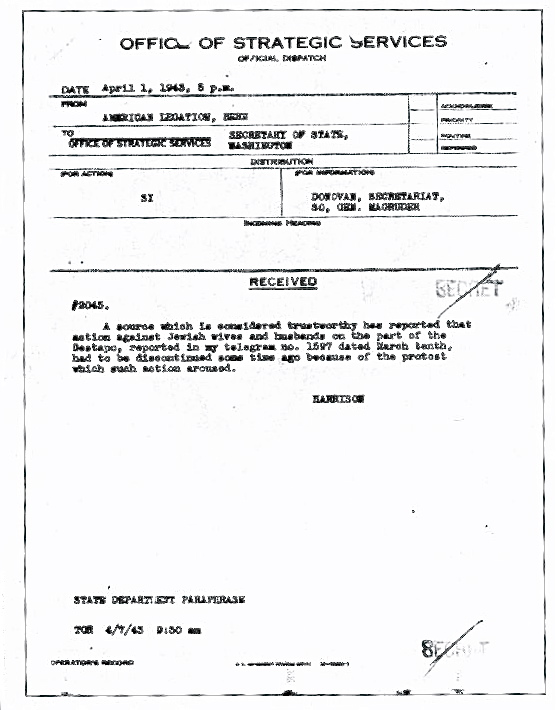 American Legation, Bern, to Office of Strategic Services, April 1, 1943: "A source which is considered trustworthy has reported that action against Jewish wives and husbands on the part of the Gestapo . . . had to be discontinued some time ago because of the protest which such action aroused."